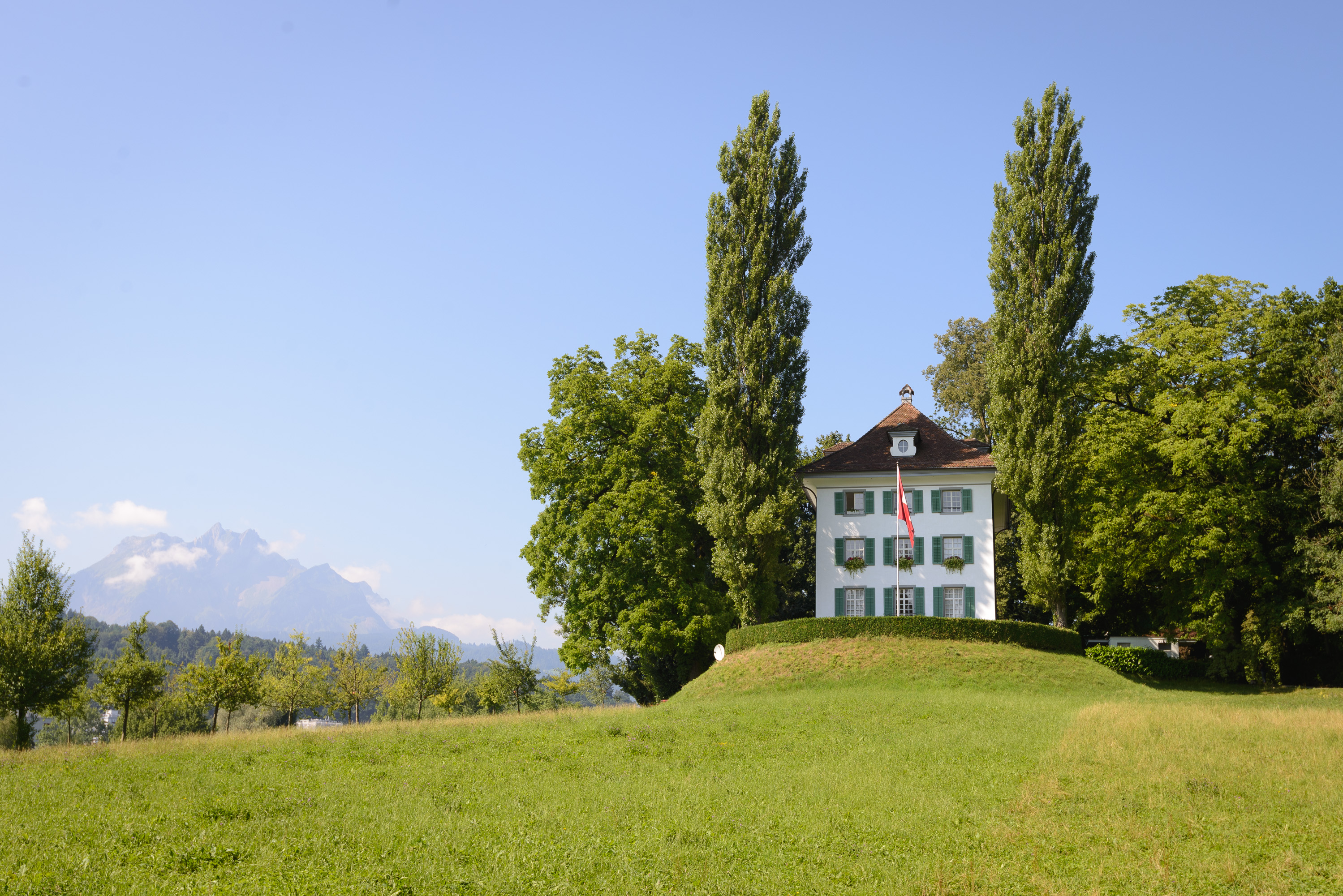 Landsitz Tribschen